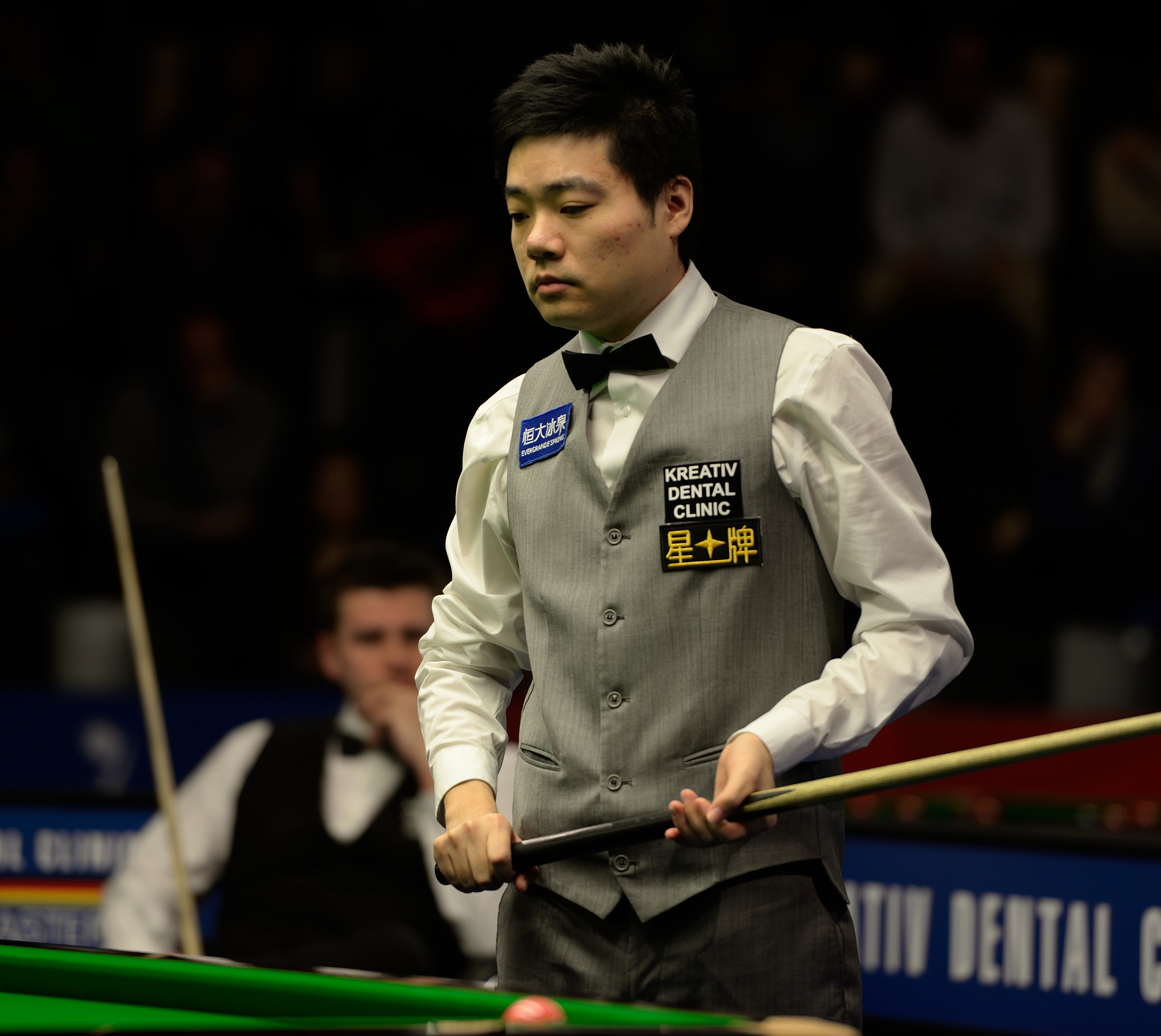 Picture taken in Berlin during the Snooker German Masters in 2015. Ding Junhui, Ryan Day.